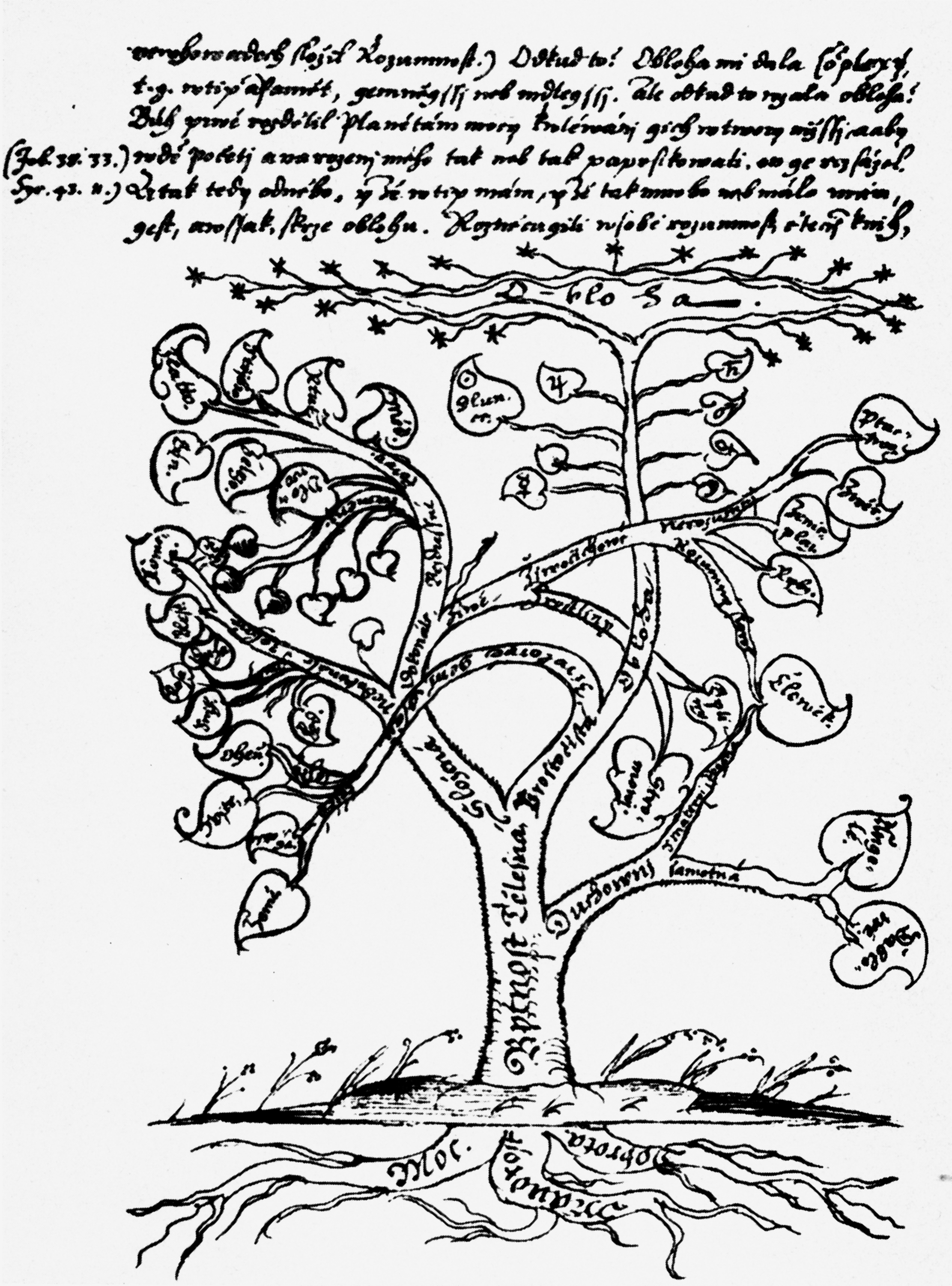 John Amos Comenius: Centrum securitatis, edition 1663, Amsterdam. The world as a tree.